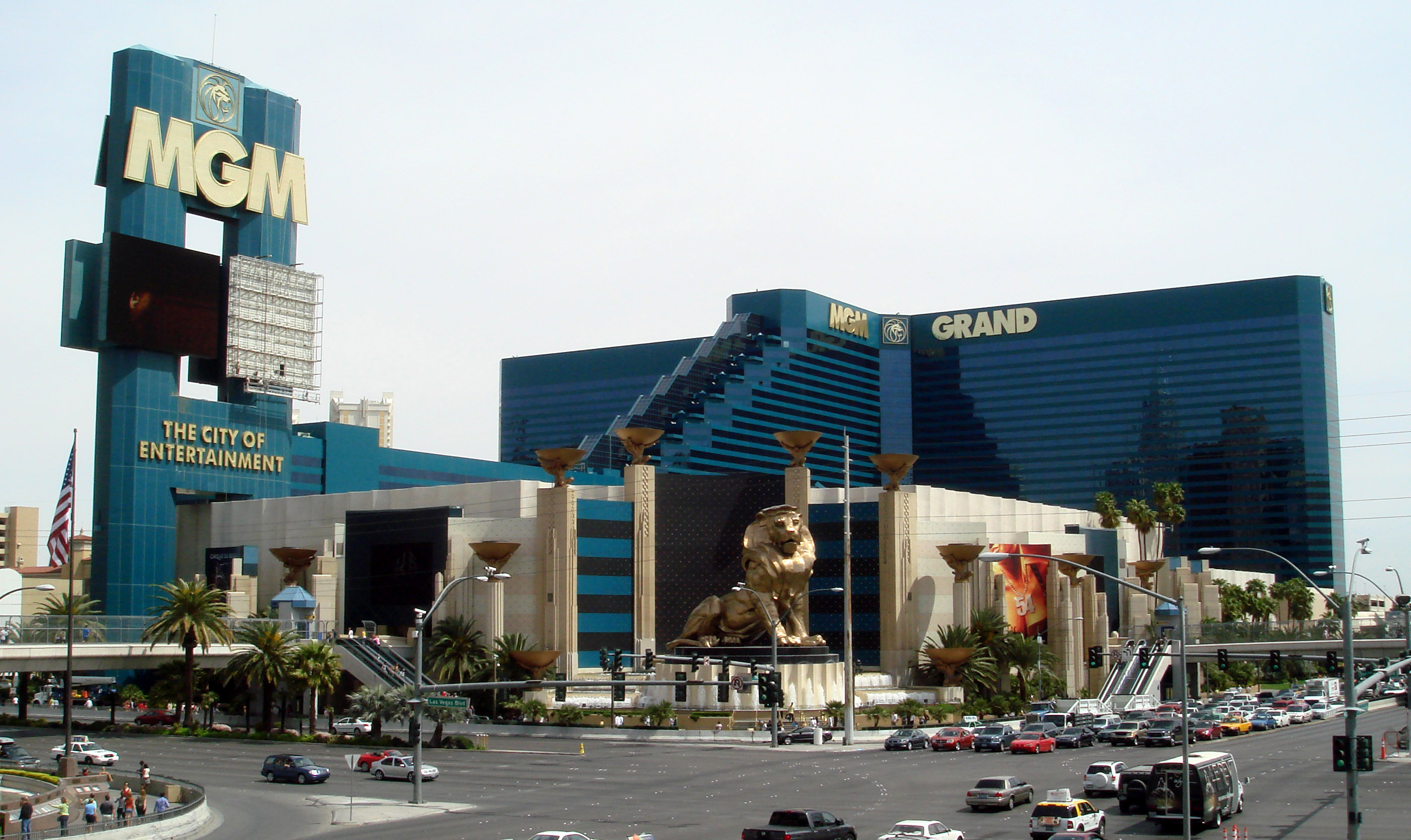 Daytime view of the MGM Grand Las Vegas